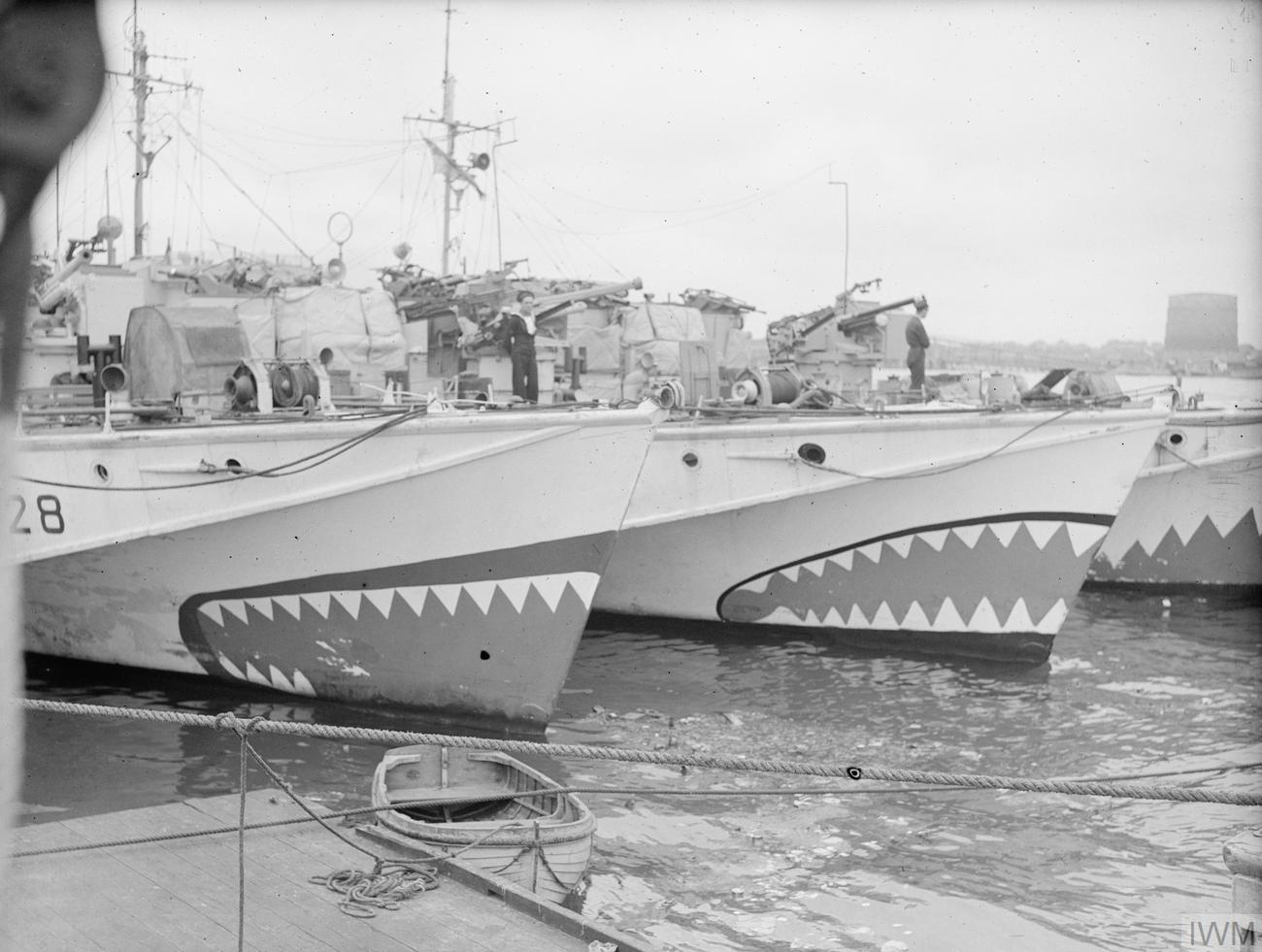 At a Coastal Forces Base, HMS Hornet, Gosport, 4 June 1944. Ships with "a bite". Clever camouflage on the bows of MTB's at HMS HORNET, Gosport.